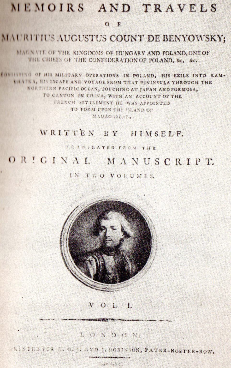 Front page of Memoirs and Travels...